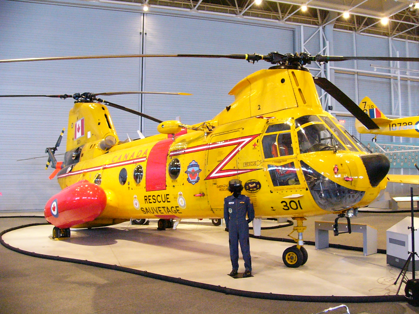 Boeing Vertol CH-113 Labador in the Canada Aviation Museum